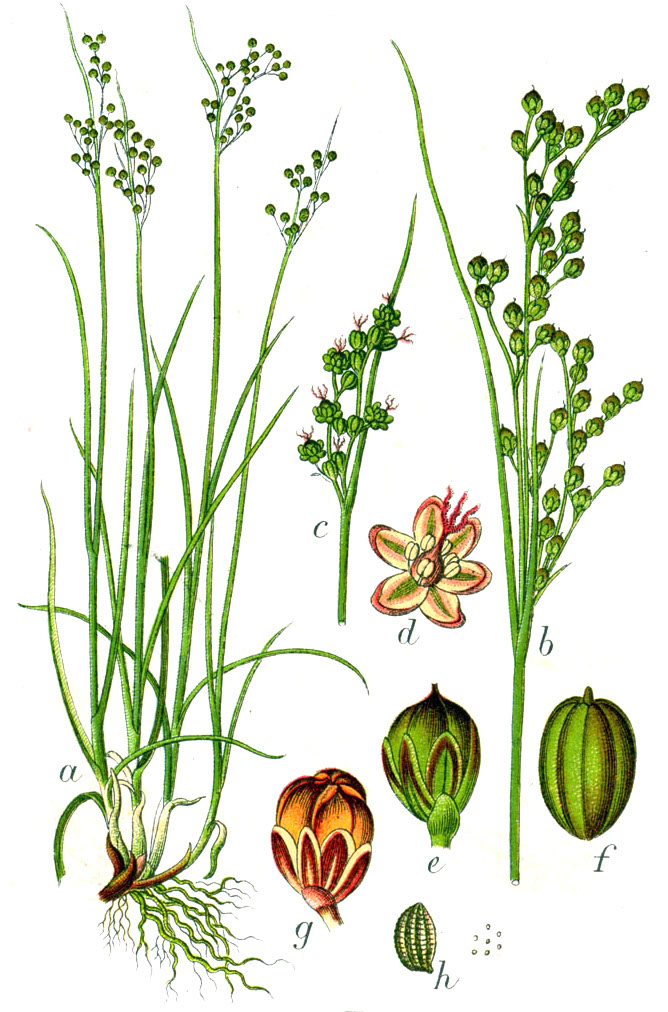 Juncus compressus Jacq. Original Caption Weg-Binse, Juncus compressus